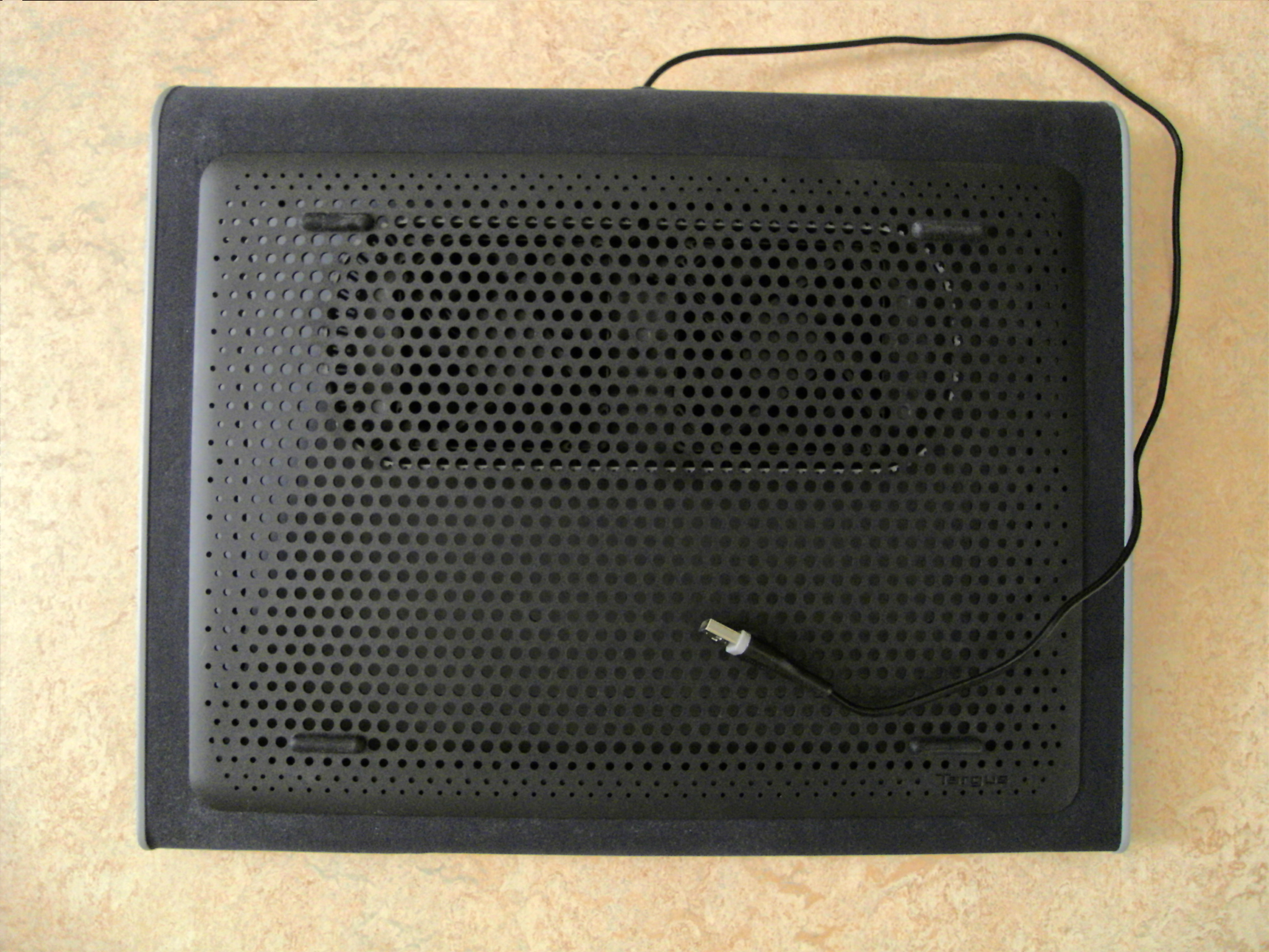 Laptop rack and laptop cooler, made by Targus. The product name is "Targus Lap Chill Mat", and model number AWE55EU. Its years of creation I don't know, but could be between 2008 and 2010, but I bought it 2013. The device is connected to the laptop by its USB-cable, which is the only cable and connection, and is also seen here. When connected to the laptop the laptop cooler turns on directly. No program is needed.